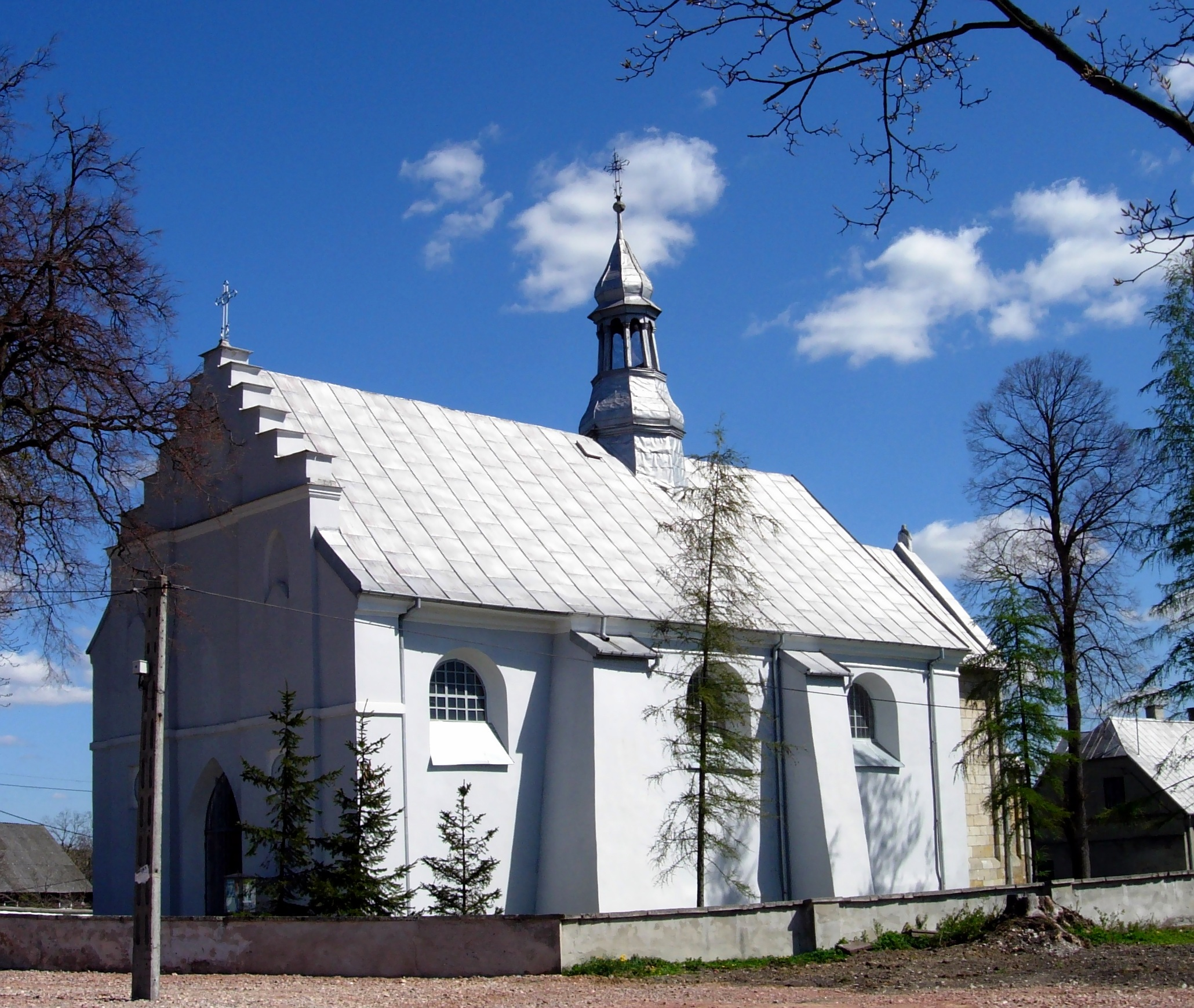 The parish church in Mokrsko Dolne, Poland